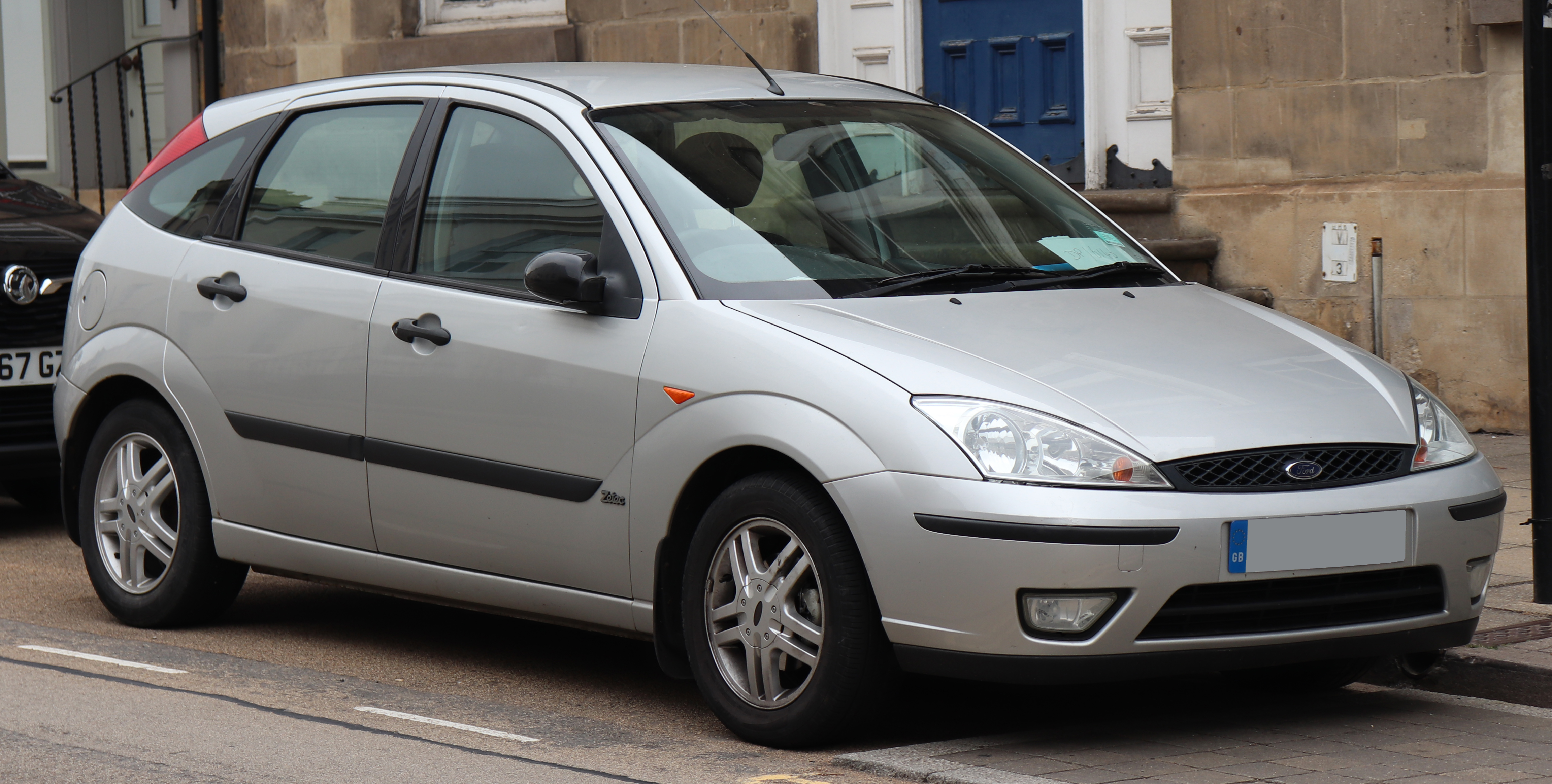 2003 Ford Focus Zetec 1.6 Front Taken in Warwick